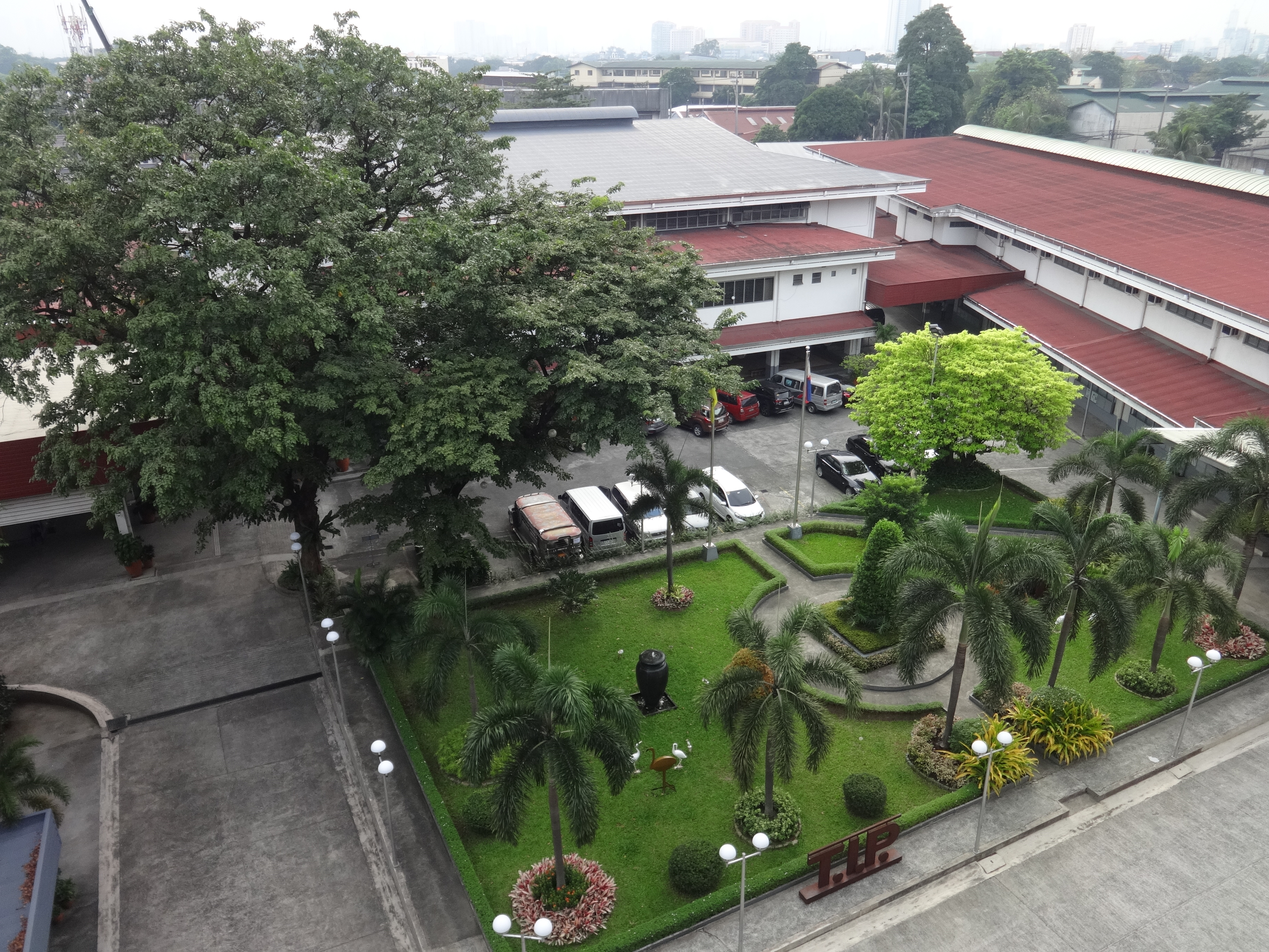 Technological Institure of the Philippines in Quiapo, Manila